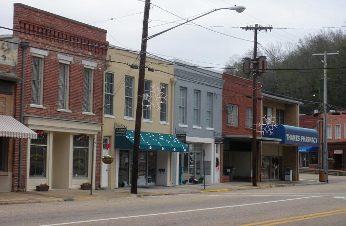 This is a photograph of Wetumpka, AL